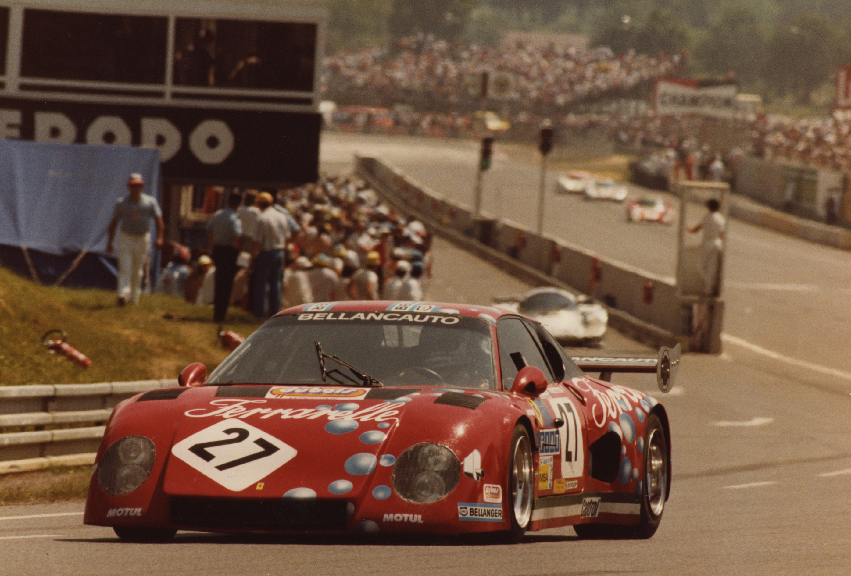 1981 Ferrari 512 BB LM s/n 35529 at 1000km Monza on 26 April 1981. Must be one of its first races. It was owned by Fabrizio Violati who is one of the drivers (the two others were Maurizio Flammini and Spartaco Dini), they ended in 15th place overall after having driven 1000 kilometers, and won their class. [1] They represented a team called: Scuderia Supercar Bellancauto.[2]